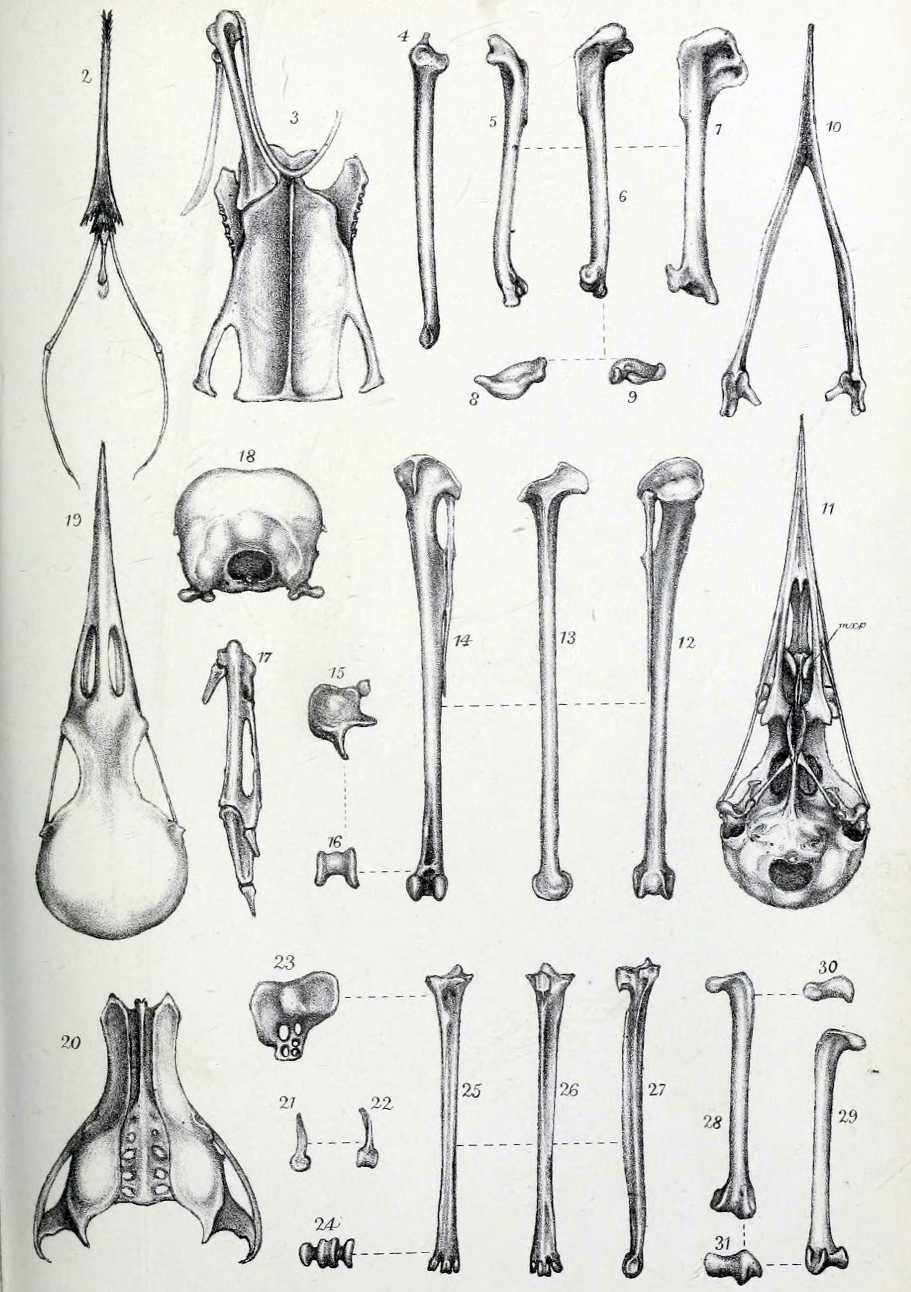 From On the Skeleton and Lineage of Fregilupus varius. Proceedings of the Zoological Society of London.